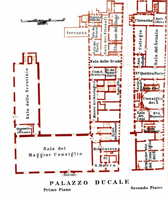 Paln of Palazzo Ducale (Doge's palace) in Venice